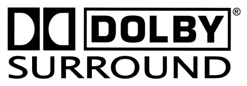 Dolby Surround